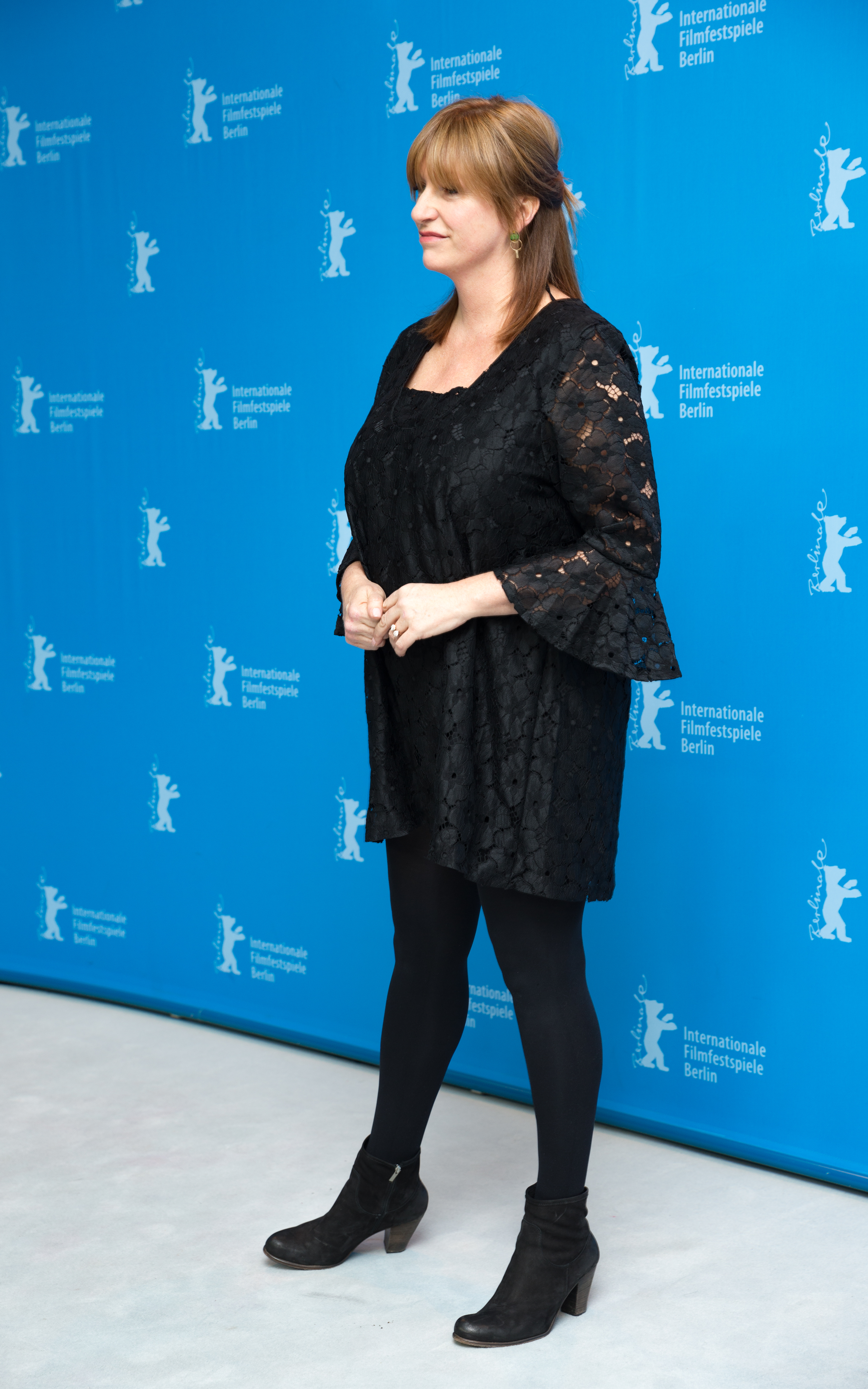 Director Cate Shortland presenting Berlin Syndrome at the Berlinale 2017